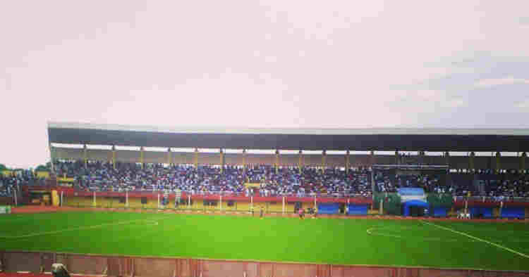 Aper Aku has a total capacity of 15,000 which currently serves as the home ground for Lobi Stars Football Club